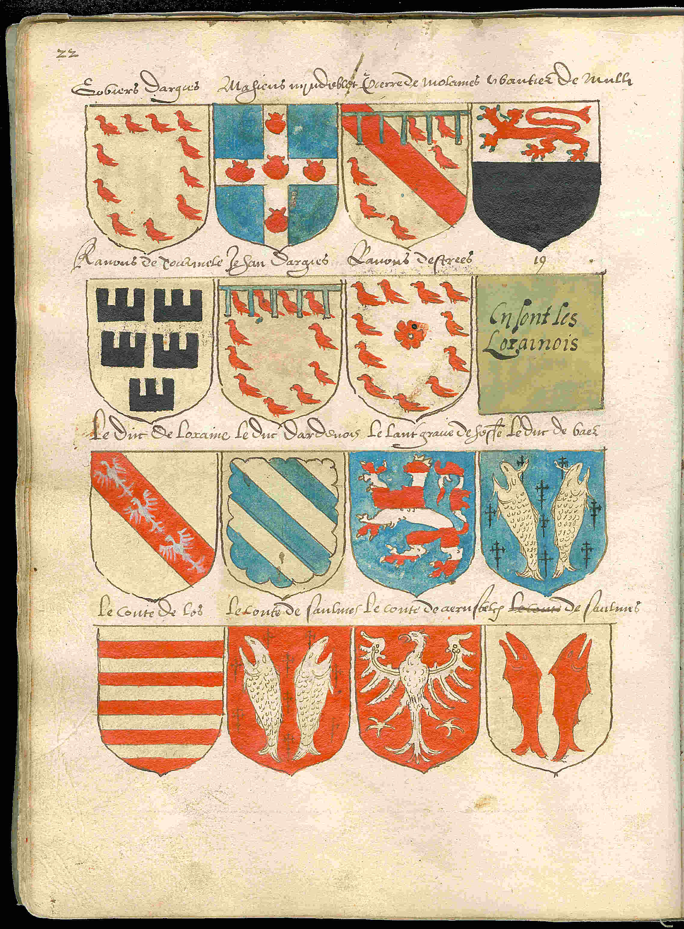 Page 22 from a copy of the Beyeren armorial / Wapenboek Beyeren from ca. 1600. The original Beyeren armorial from 1405 can be viewed at the website of the KB